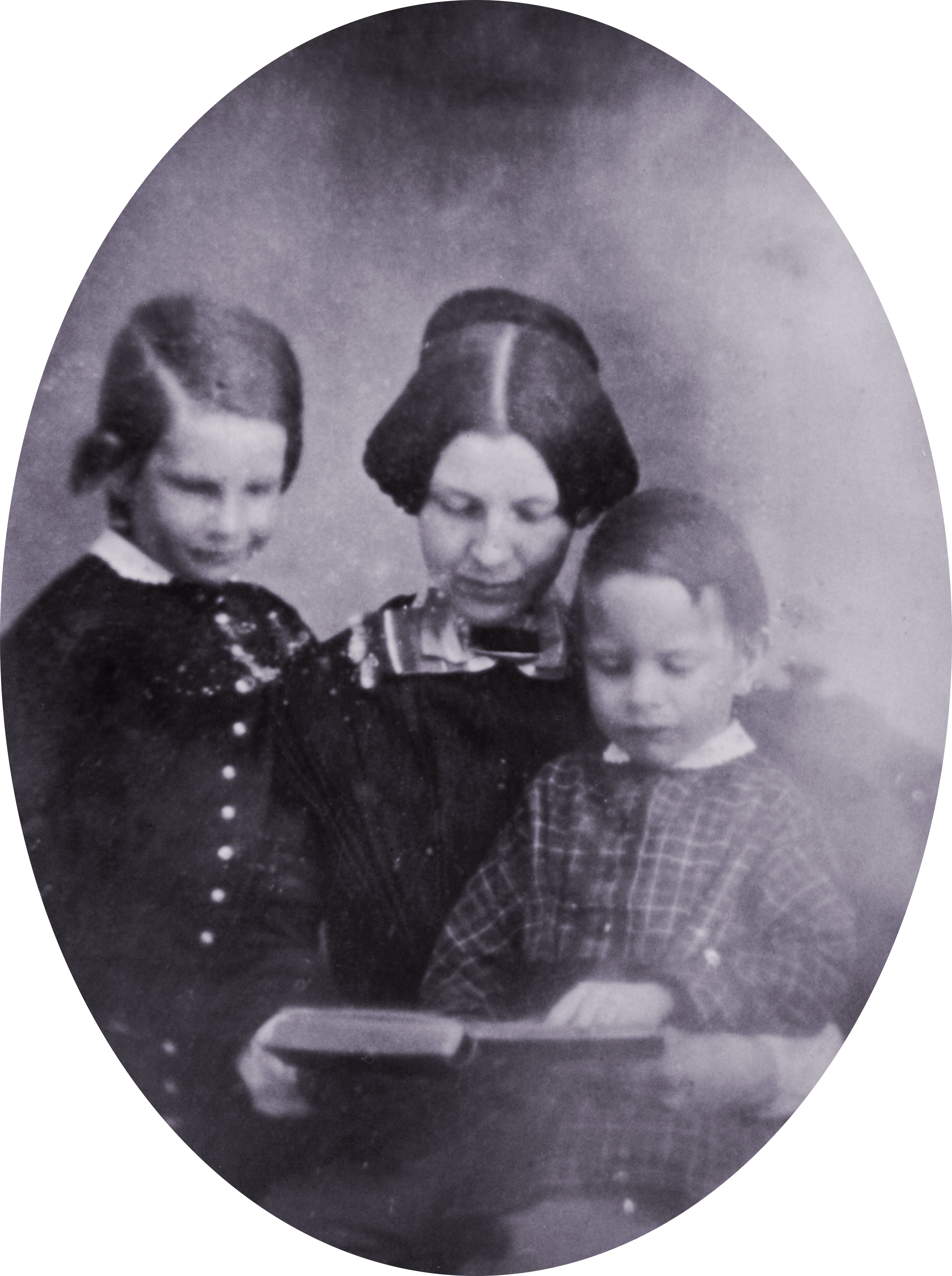 Wife of Henry Wadsworth Longfellow, Fanny Appleton Longfellow, with sons Charles and Ernest.